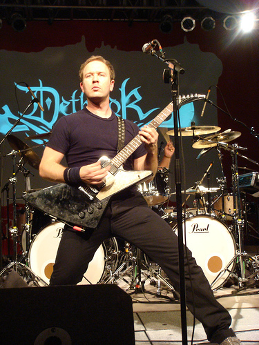 Brendon Small at a Dethklok concert in 2007.